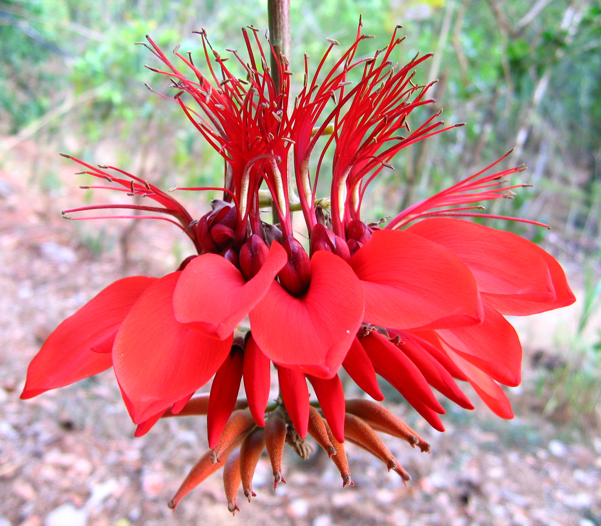 Erythrina variegate